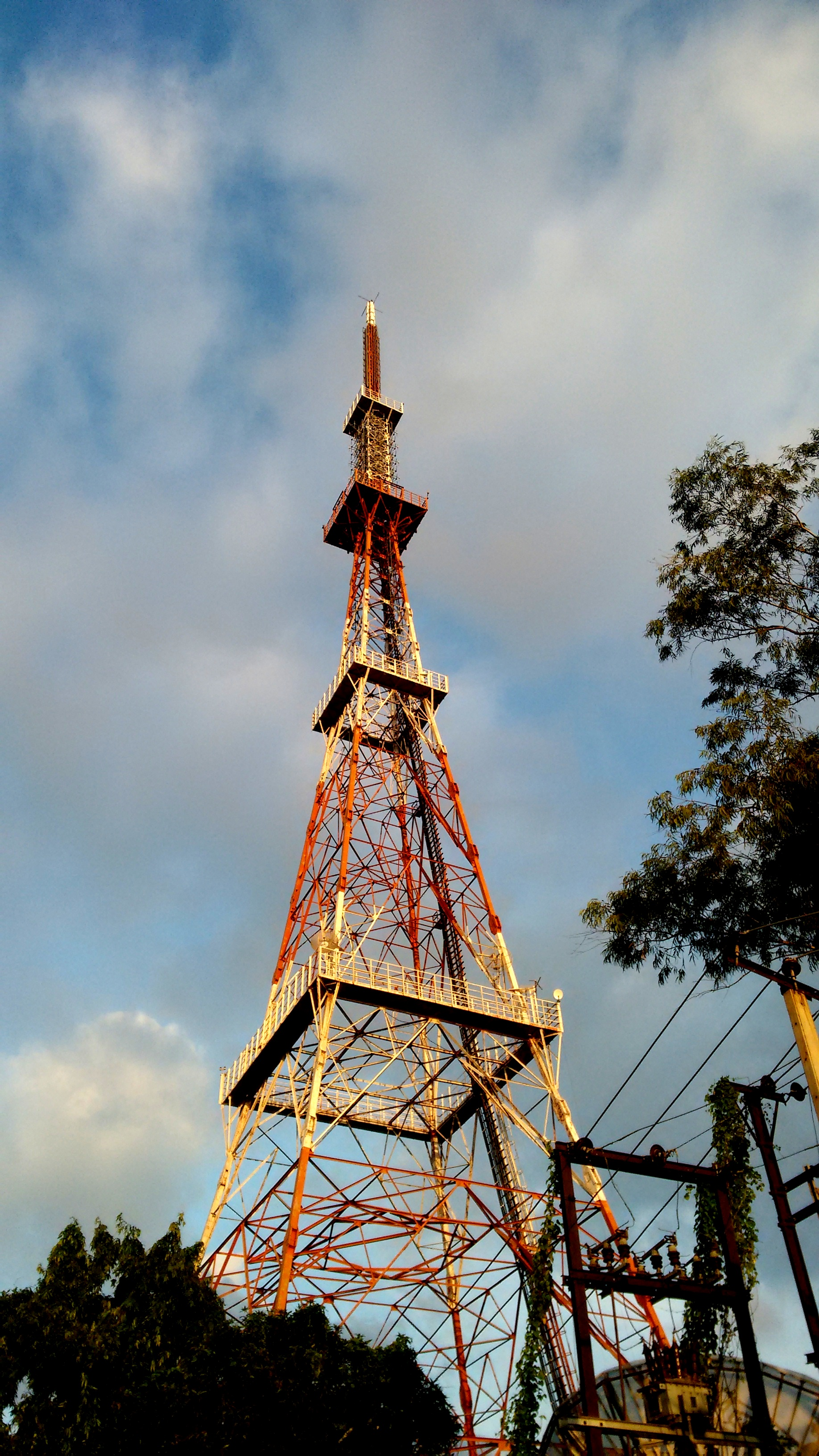 TV Tower, BH Colony, Patna